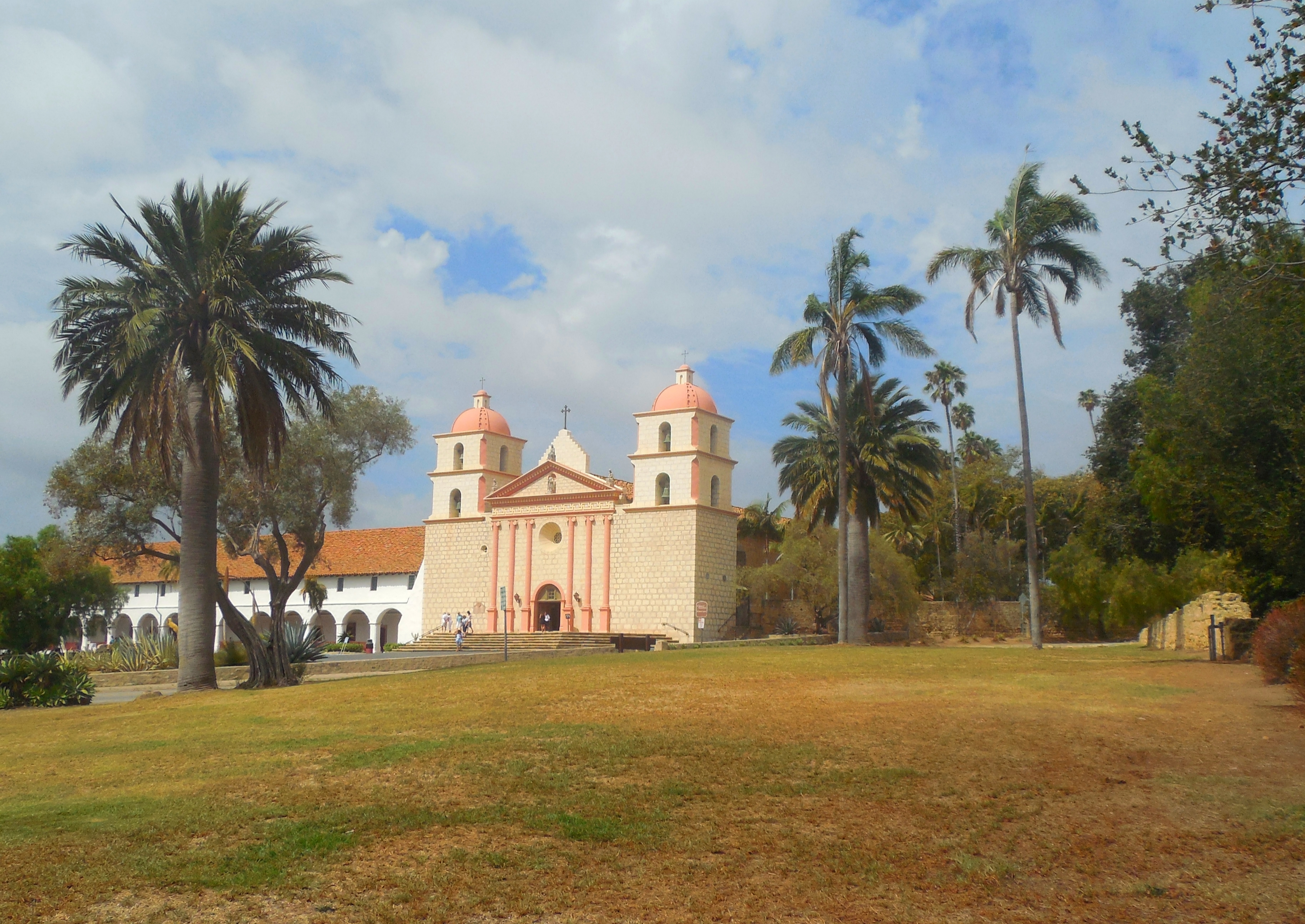 View of the Santa Barbara Mission and aqueduct wall (right) from Mission Historical Park's grassy area in Santa Barbara, California, 2015